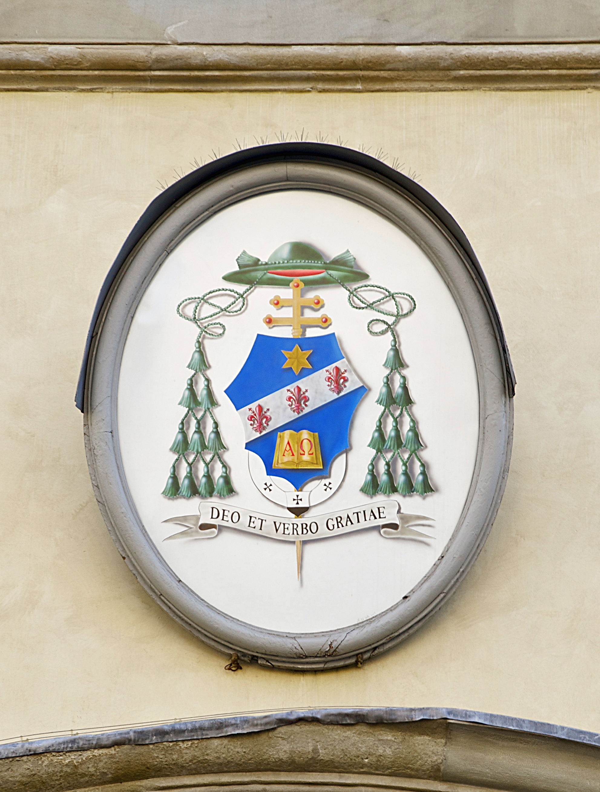 Coat of arms of H.E. Mgr. Giuseppe Betori, archbishop of Florence, on the façade of the palace of the archbishops, before his nomination as Cardinal in 2012.